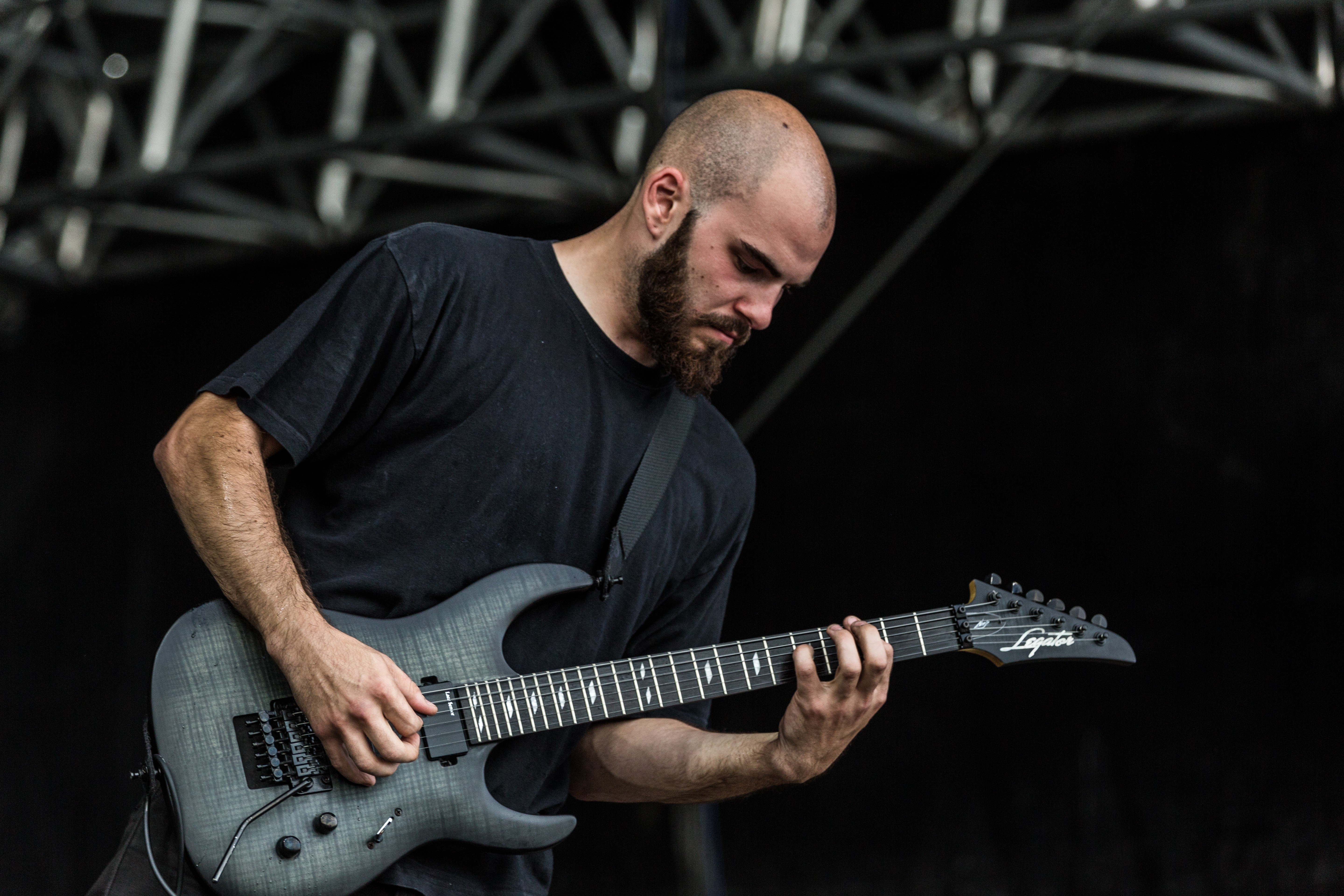 The American death metal band Suffocation at the Summer Breeze Open Air 2017 in Dinkelsbühl/Germany.